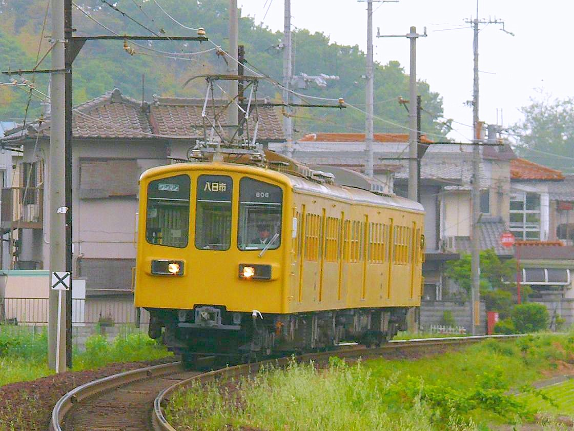 Ohmi Railway Type 806 EMU. Ohmi Railway line.